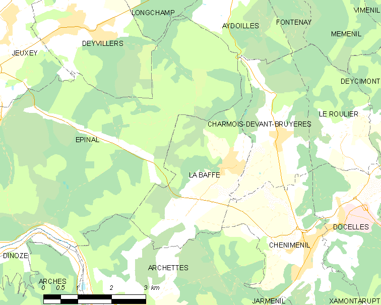 Map of French municipality La Baffe